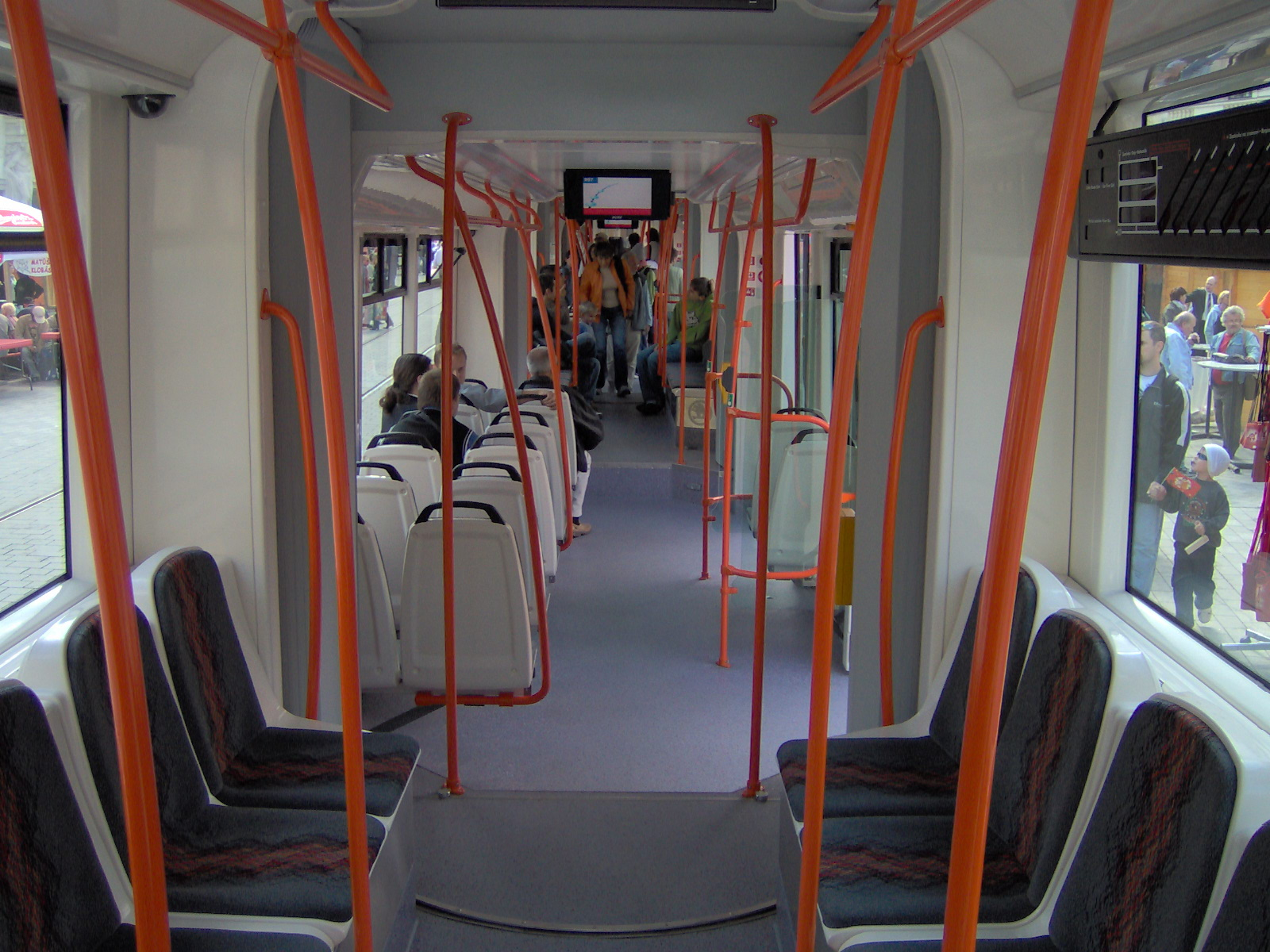 Interior of Škoda 13 T tram in Brno